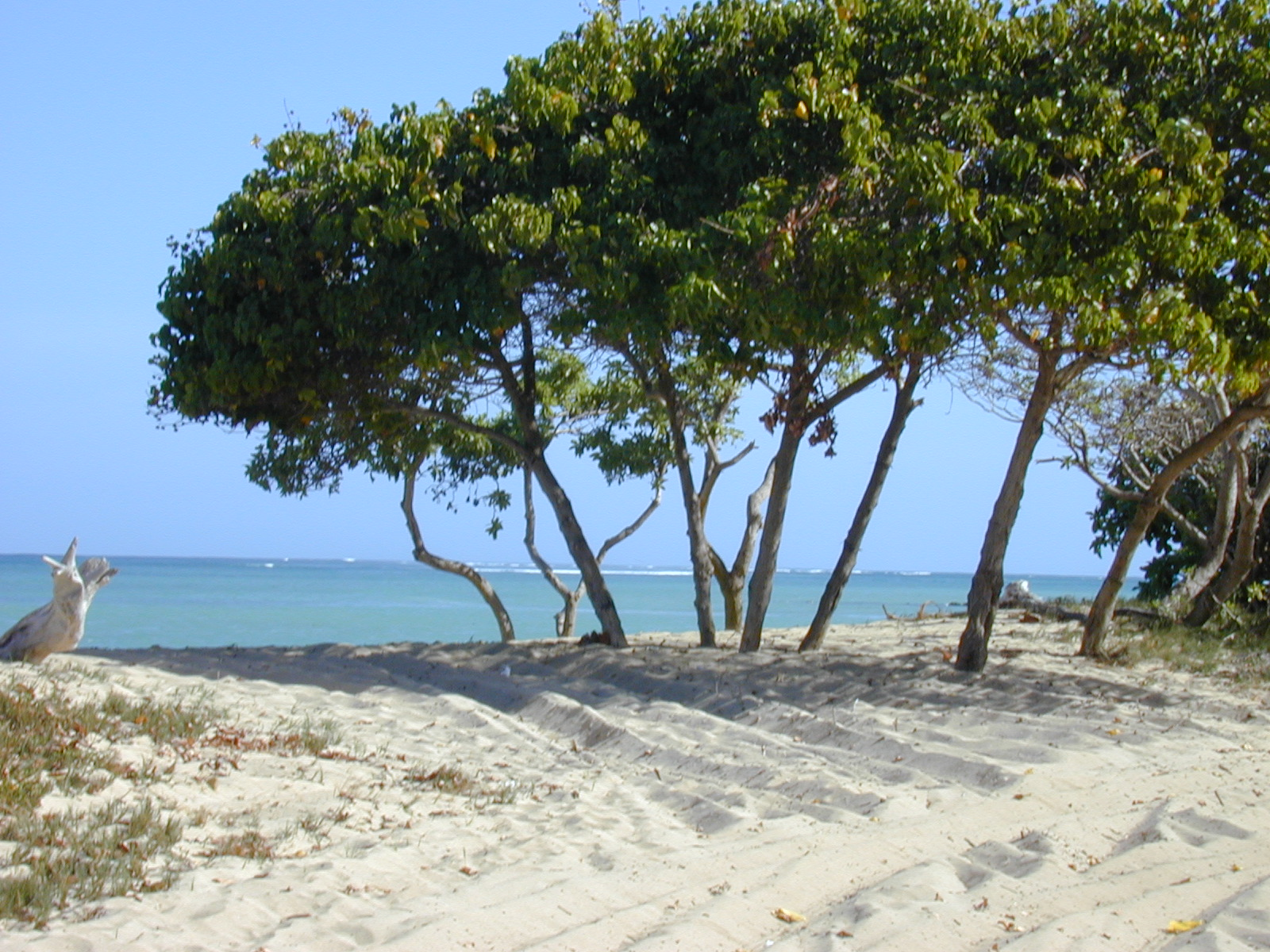 Thespesia populnea (flowers and leaves). Location: Maui, Kanaha Beach